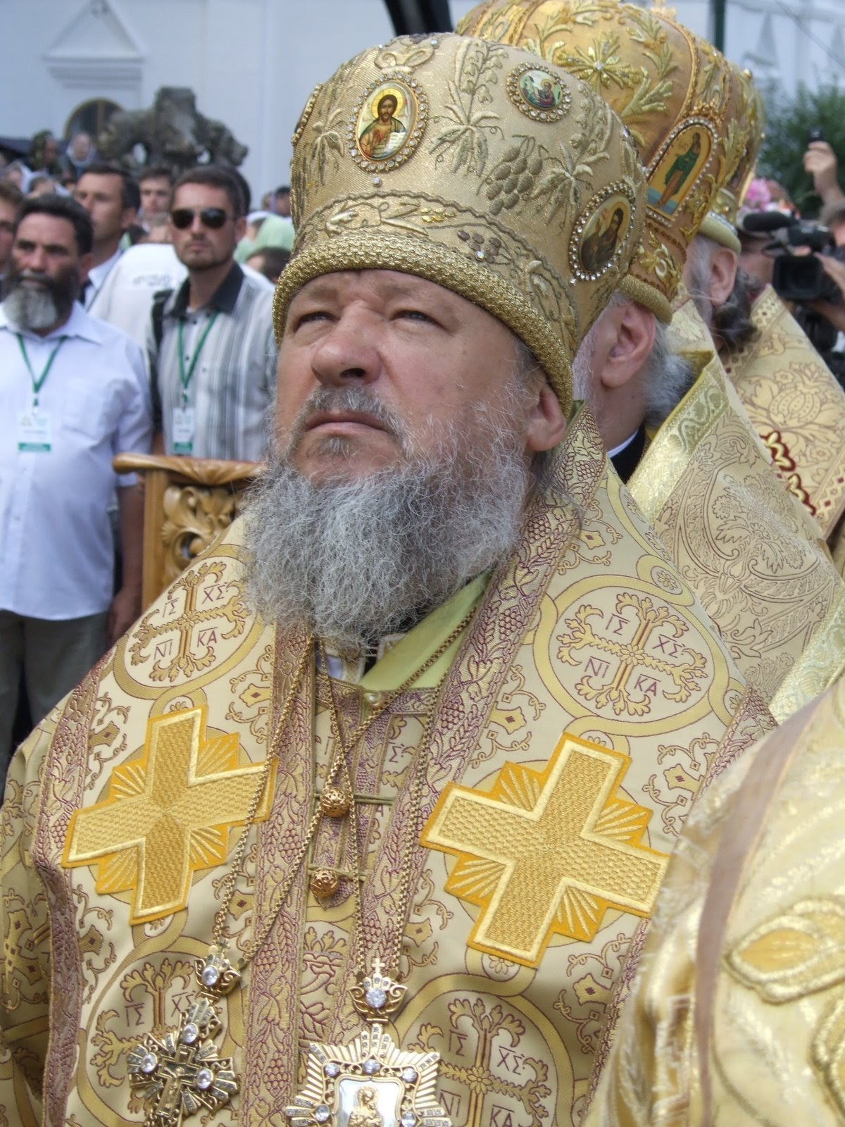 Archbishop Anthony of Krasnoyarsk